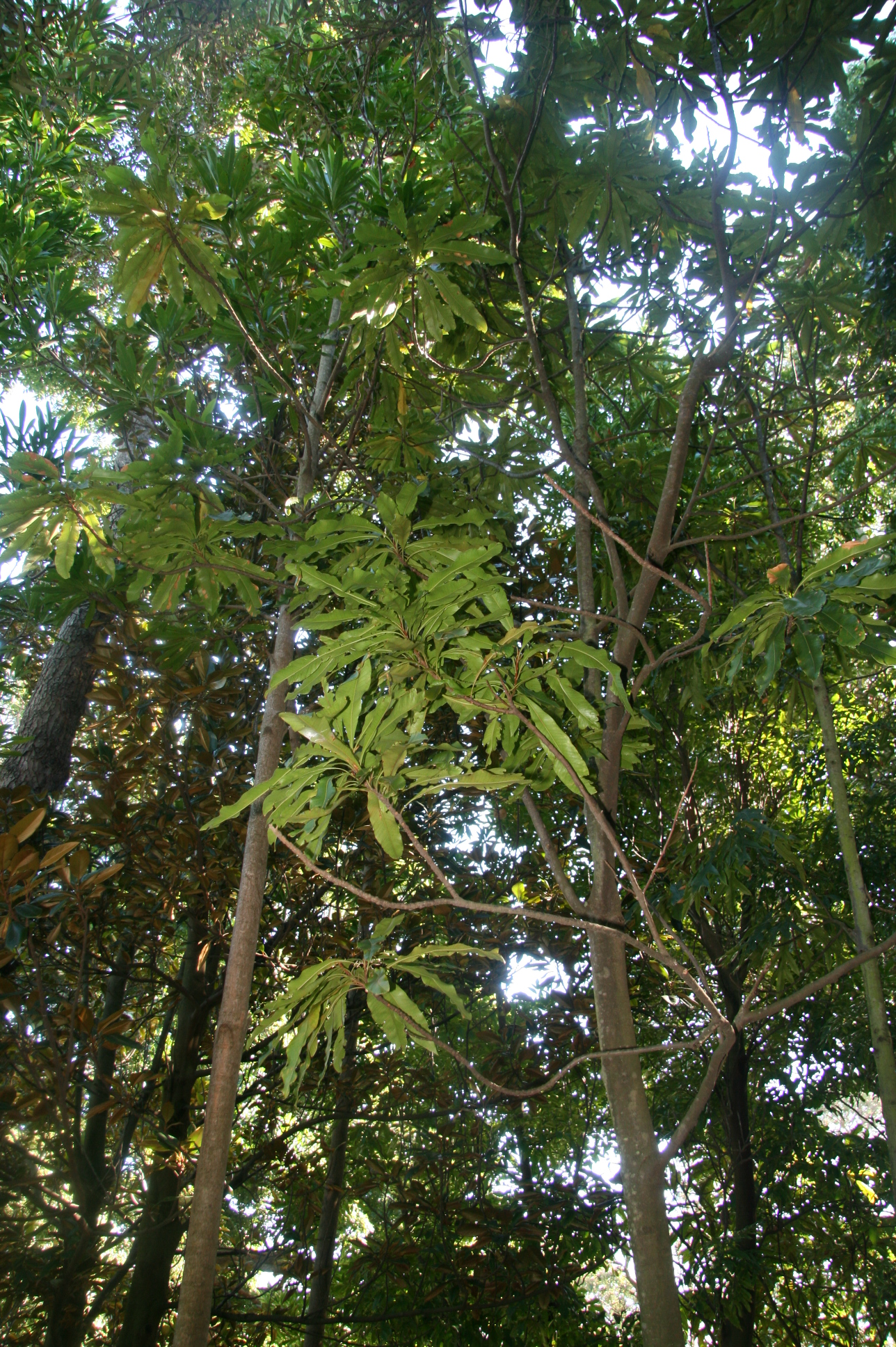 Darlingia darlingiana (adult foliage) Royal Botanic Gardens, Sydney